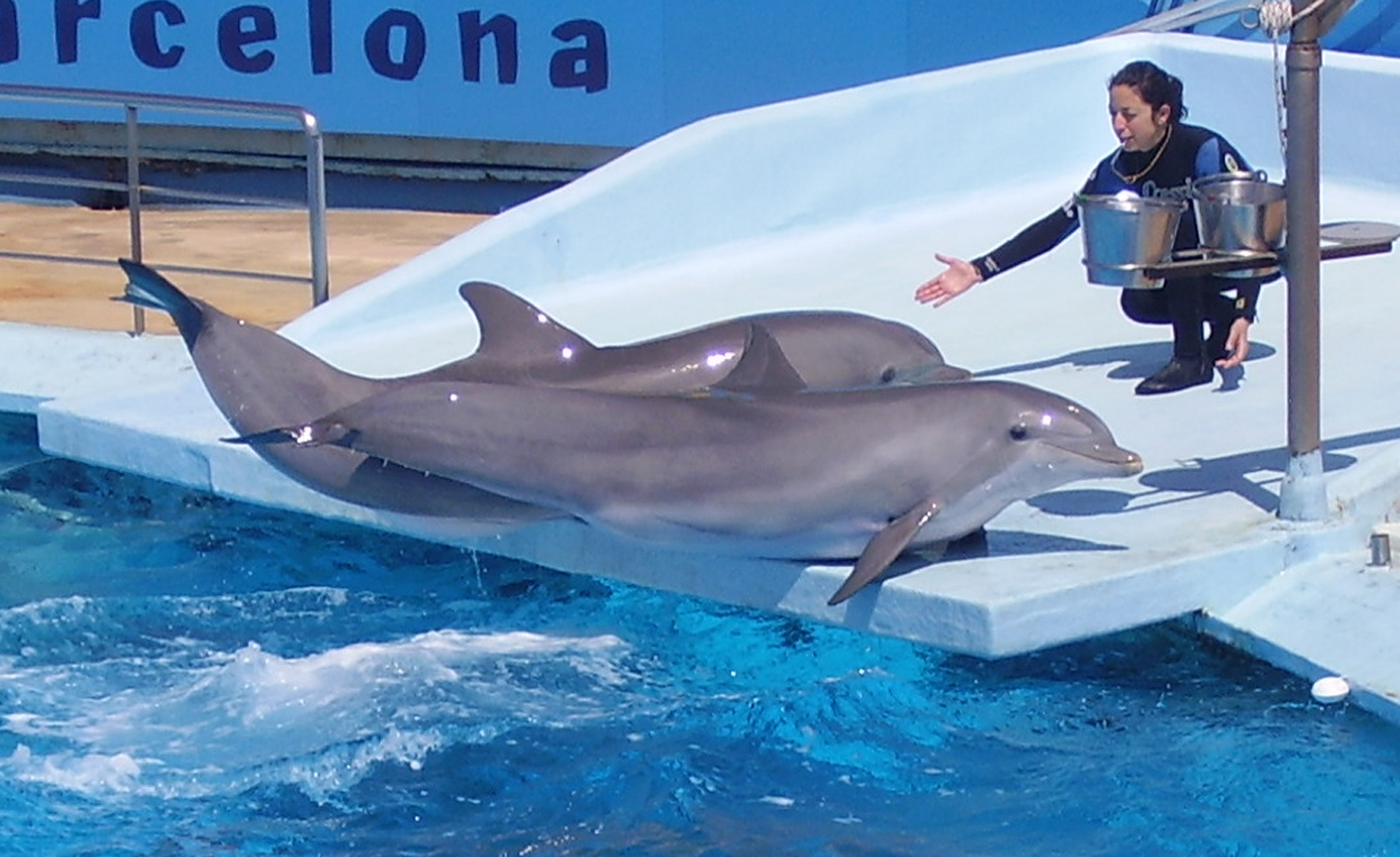 This photography was taken in the aquarium of Barcelona's zoo in April of 2005. I'm photography's author.